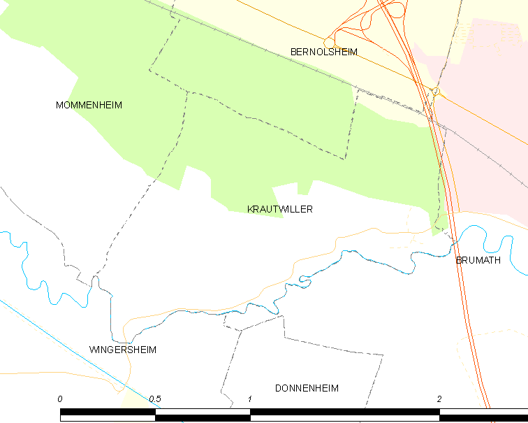 Map of French municipality